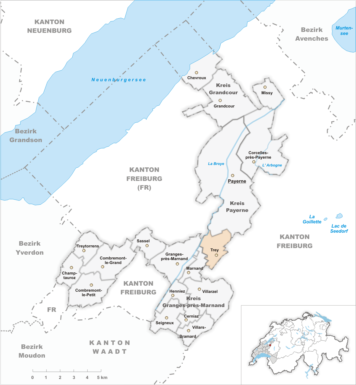 Municipality Trey